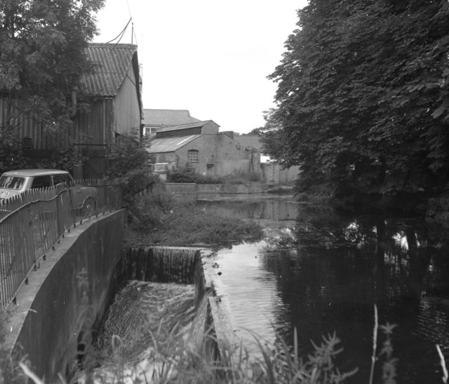 Industry on the Wandle, Carshalton, Surrey Although Carshalton now is almost entirely a residential suburb, some of its former industry survived into the 1970s along the Wandle. These old industrial premises have now been demolished.